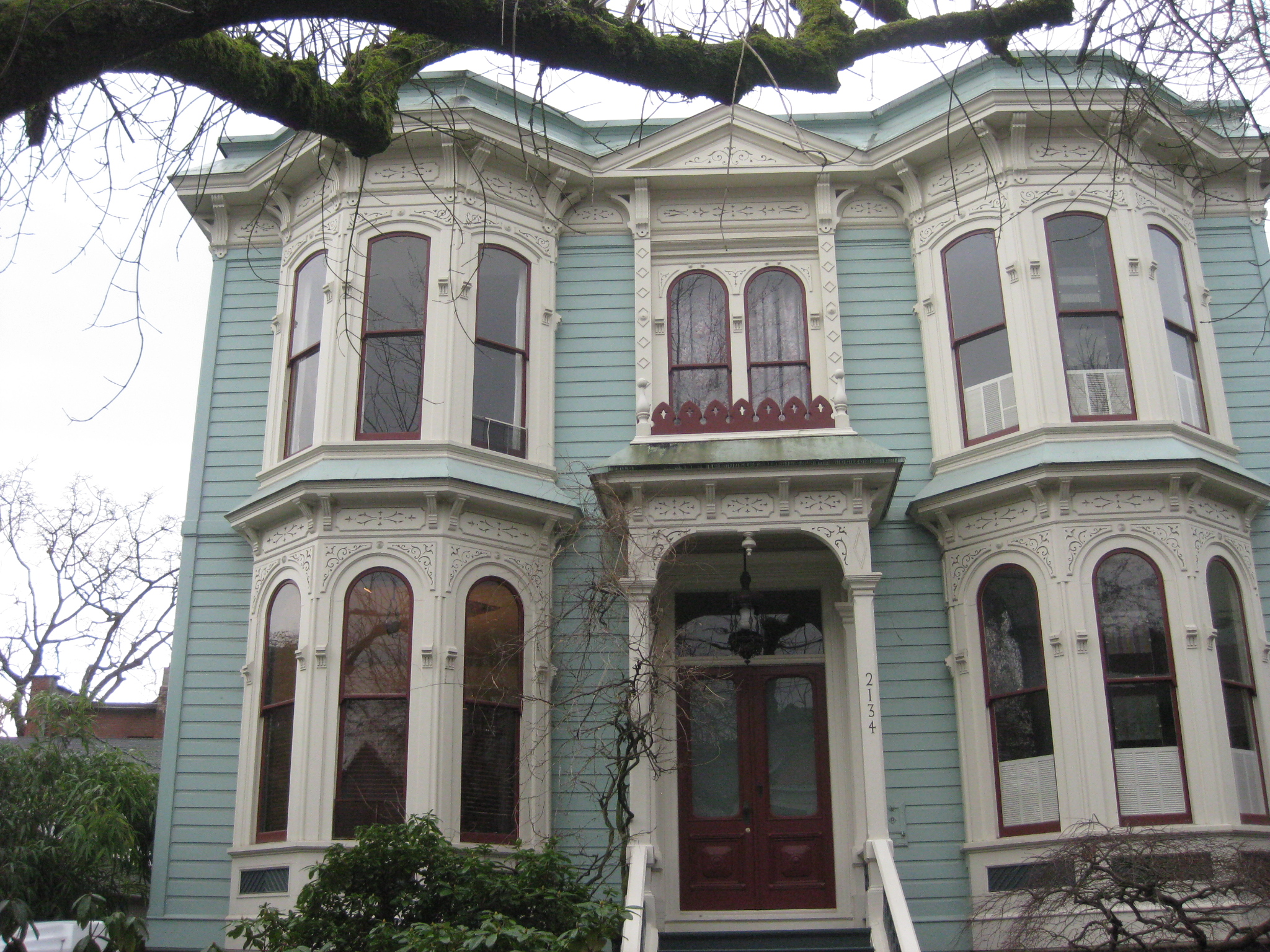 The historic Joseph Bergman House (built 1885) located 2134 NW Hoyt St in Portland, Oregon, United States, are listed on the US National Register of Historic Places (NRHP). The house is part of the NRHP-listed Alphabet Historic District.NRHP reference number 83002168